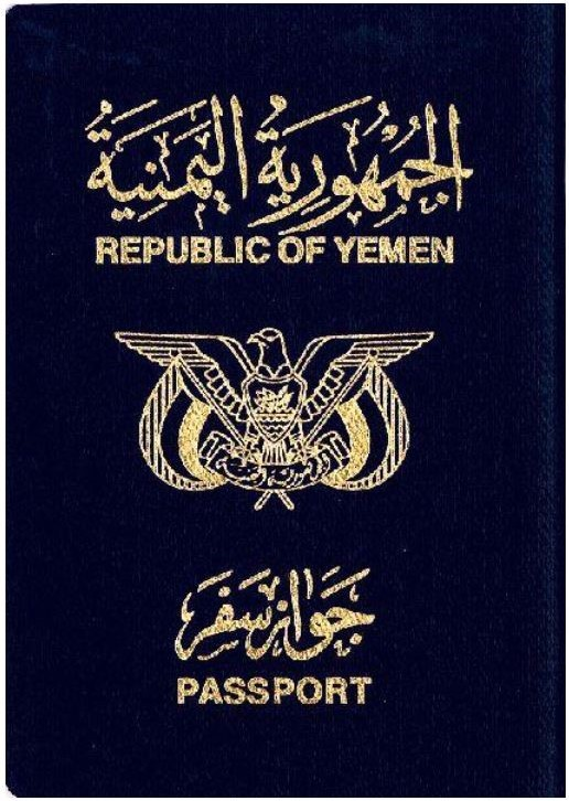 Passport of the Republic of Yemen